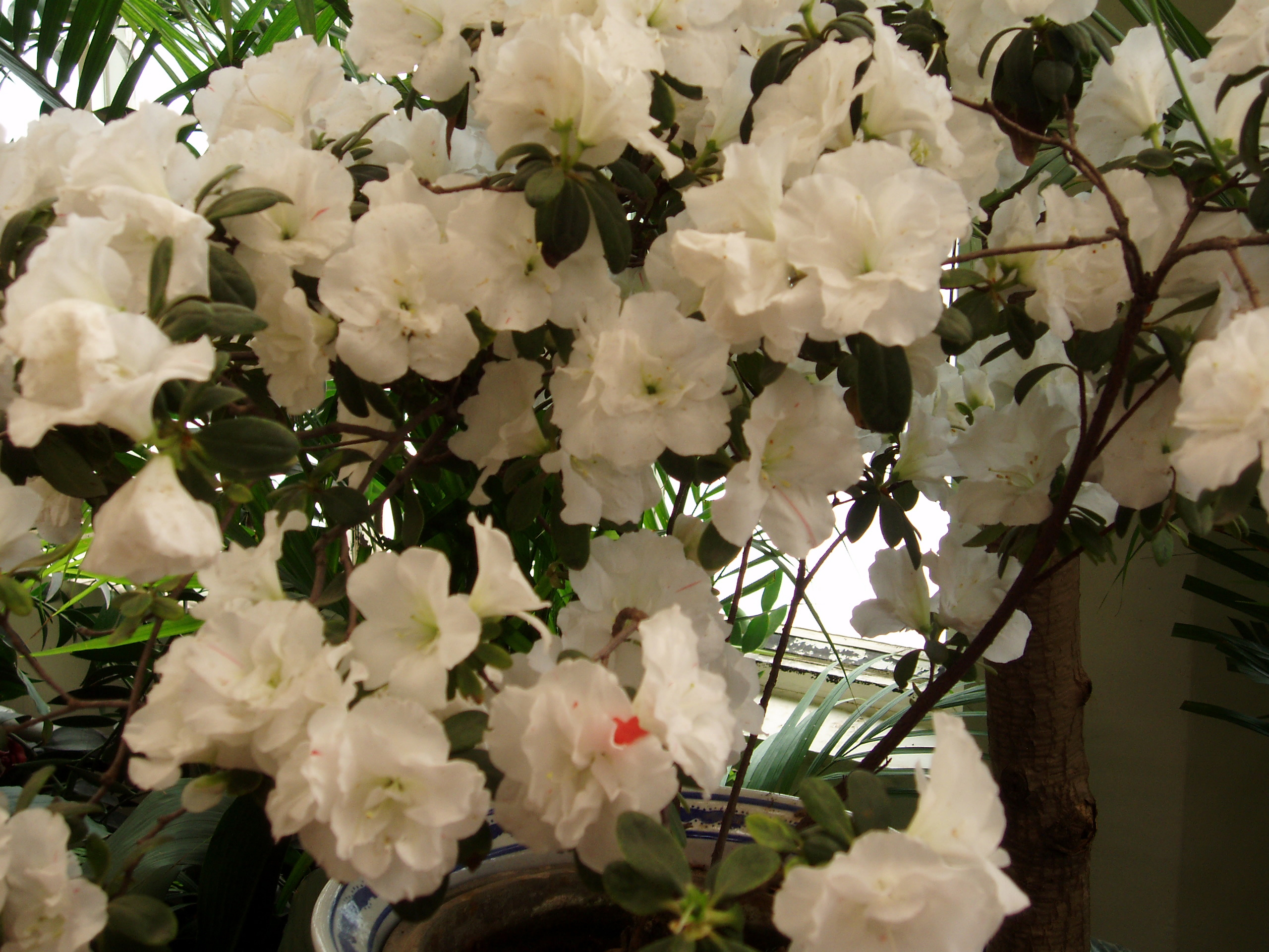 Azalea flowers